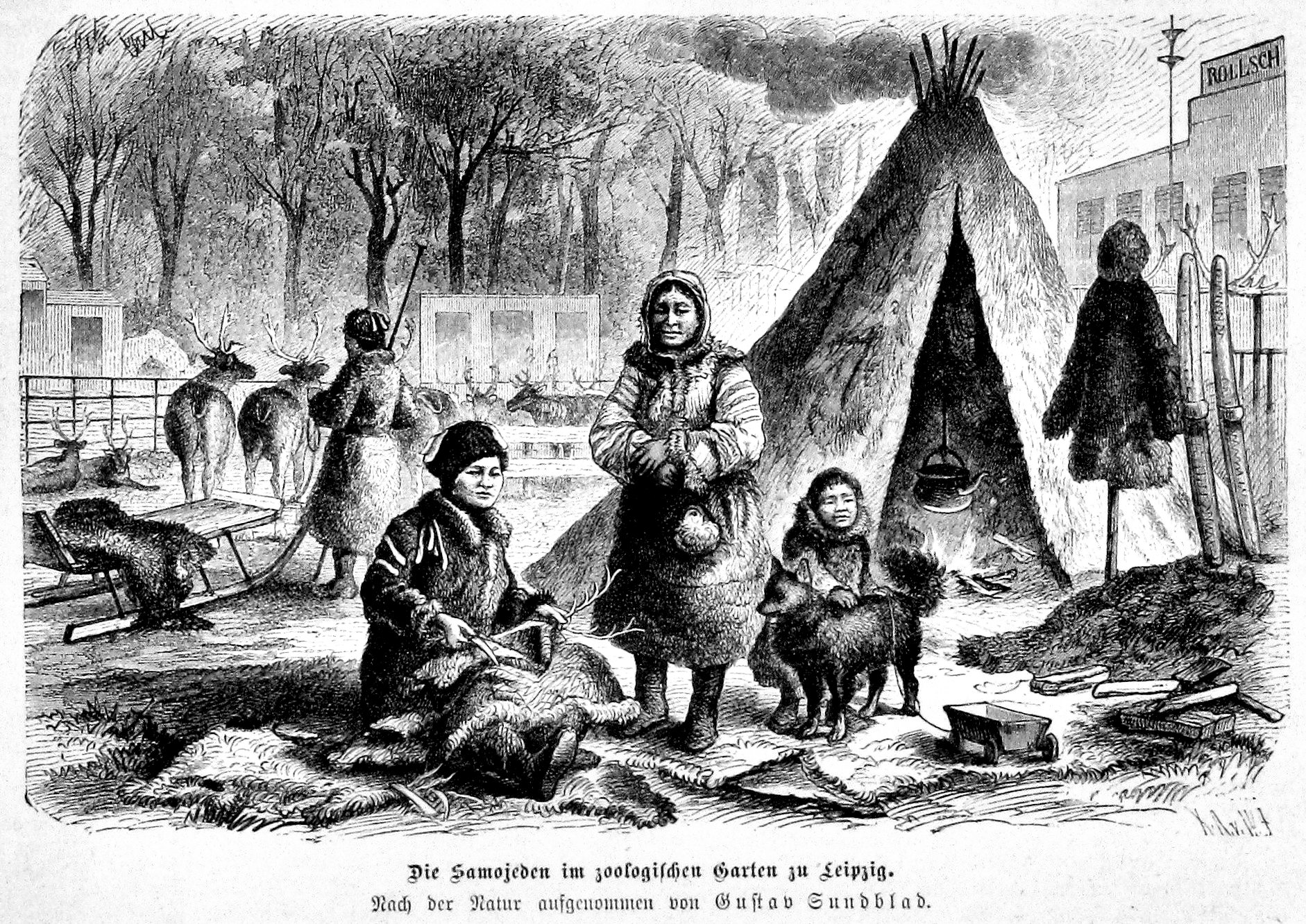 caption: "Die Samojeden im zoologischen Garten zu Leipzig. Nach der Natur aufgenommen von Gustav Sundblad."